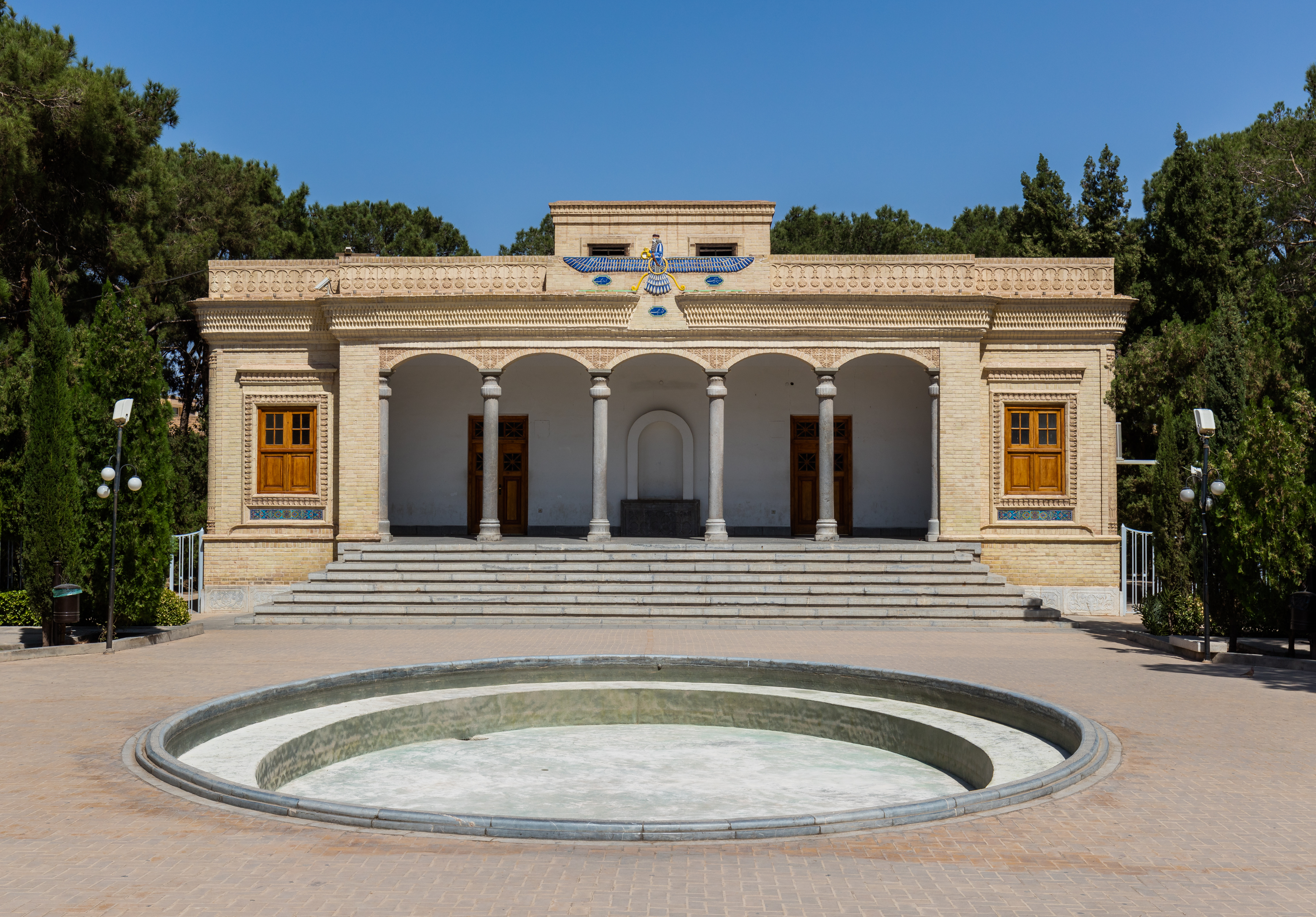 Yazd Atash Behram (in English "Yazd Victorious Fire"), a Zoroastrian temple located in Yazd, Iran. It was built in 1934 and was open to non-Zoroastrian visitors in the 1960s. It is one of the nine Atash Behrams, the only one of the highest grade fire in Iran where Zoroastrians have practiced their religion since 400 BC; the other eight Atash Behrams are in India.